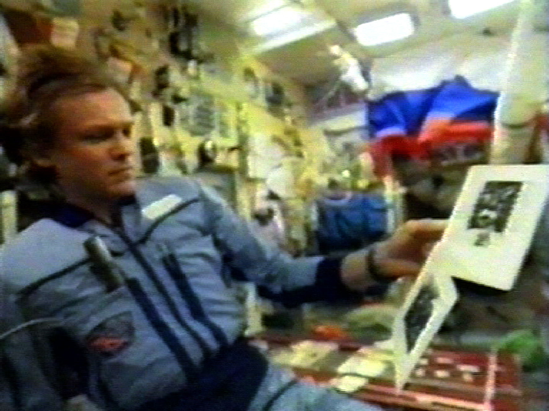 Ihor Podolchak's solo show at Russian space station "Mir".